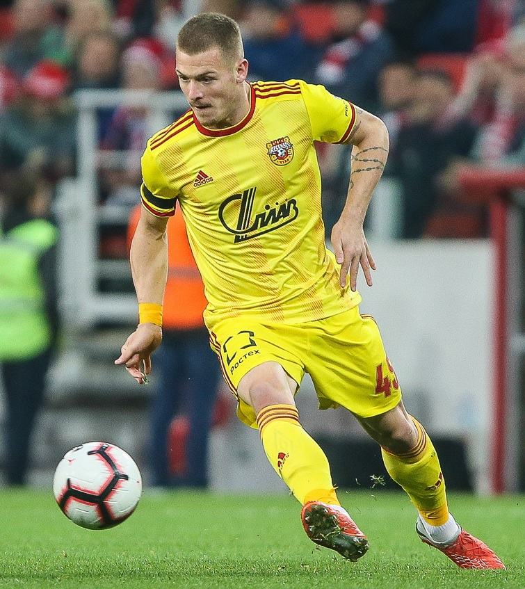 Ognjen Ožegović with FC Arsenal Tula in a game against FC Spartak Moscow.